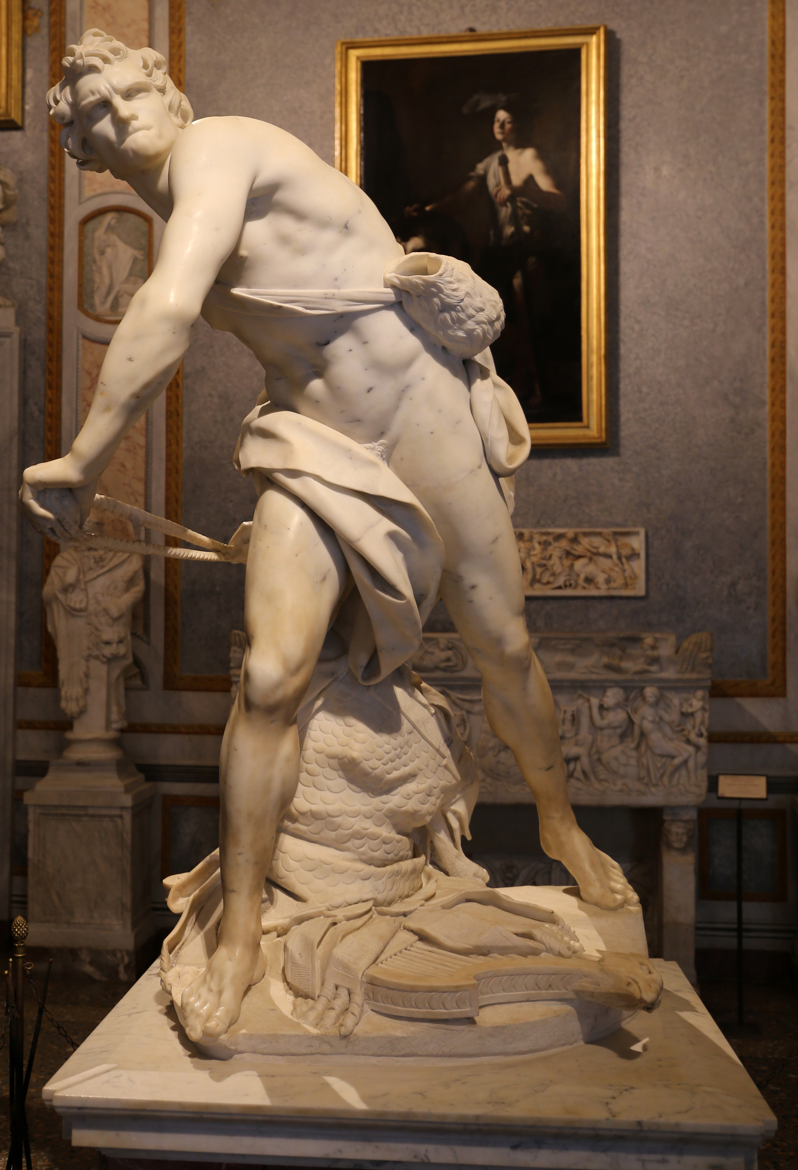 Sculptures in the Galleria Borghese (Rome)